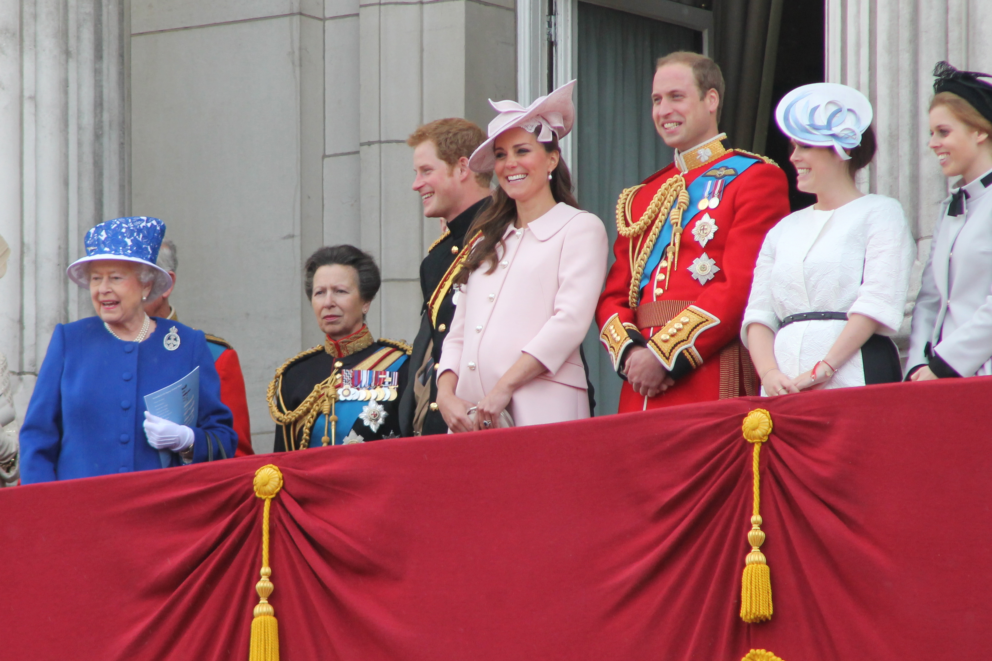 The British royal family on the balcony of Buckingham Palace, June 2013